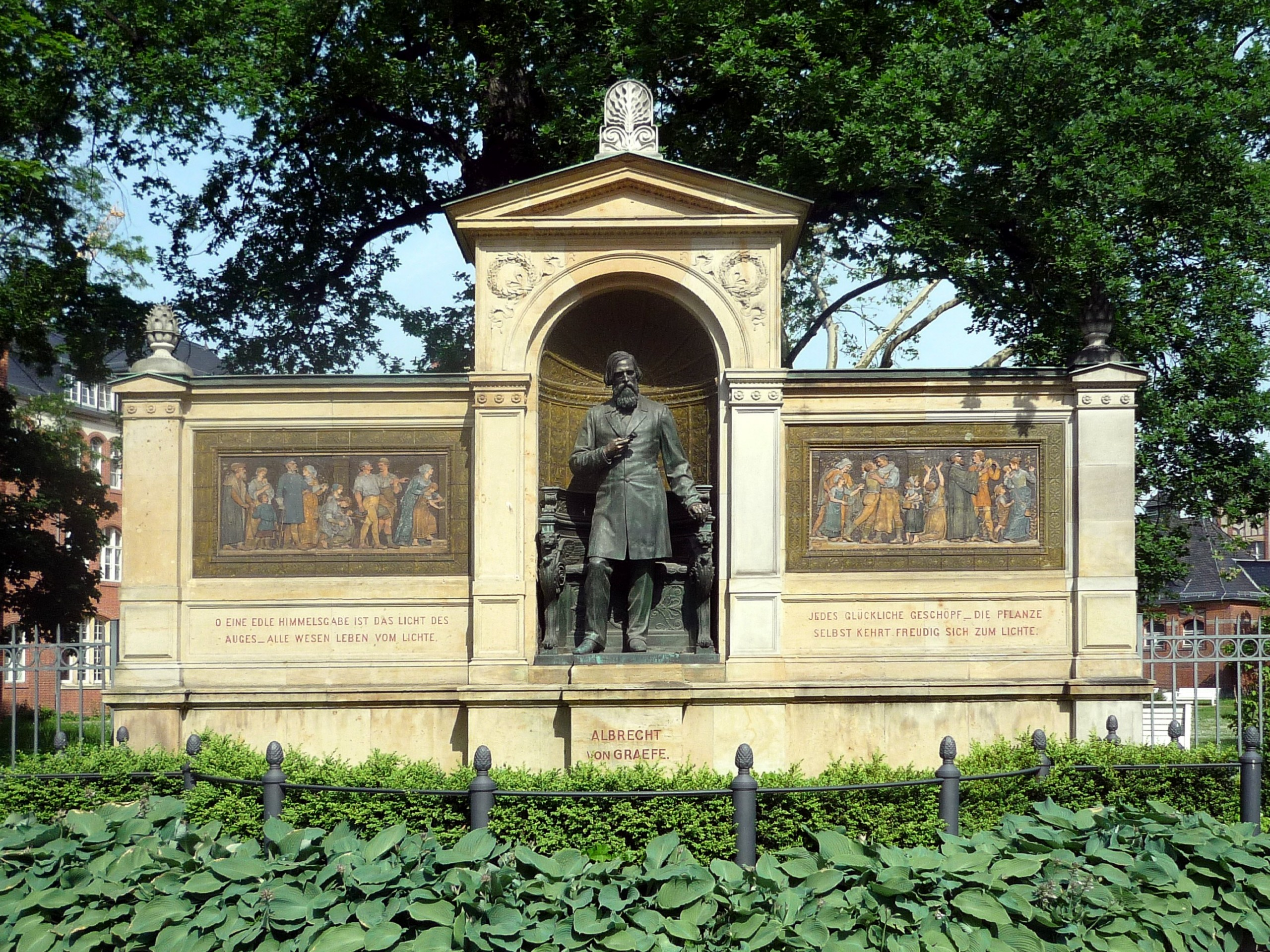 Monument for Albrecht von Graefe, ophthalmic surgeon. Berlin, near Charité. Sculptor: Rudolf Siemering, 1882.